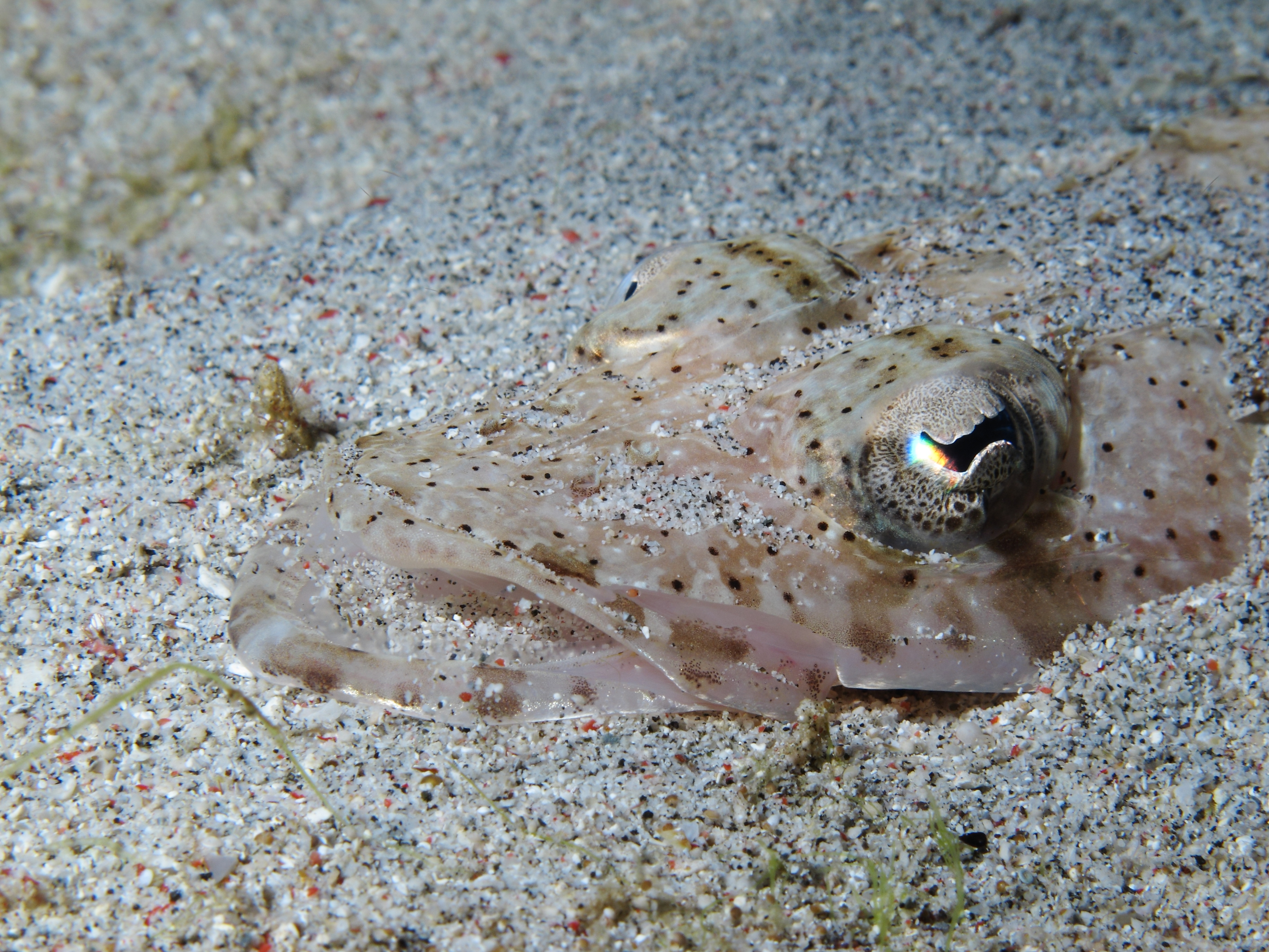 Unidentified flathead (Platycephalidae) buried in the sand at night at Gilli Banta (near Komodo, Indonesia)